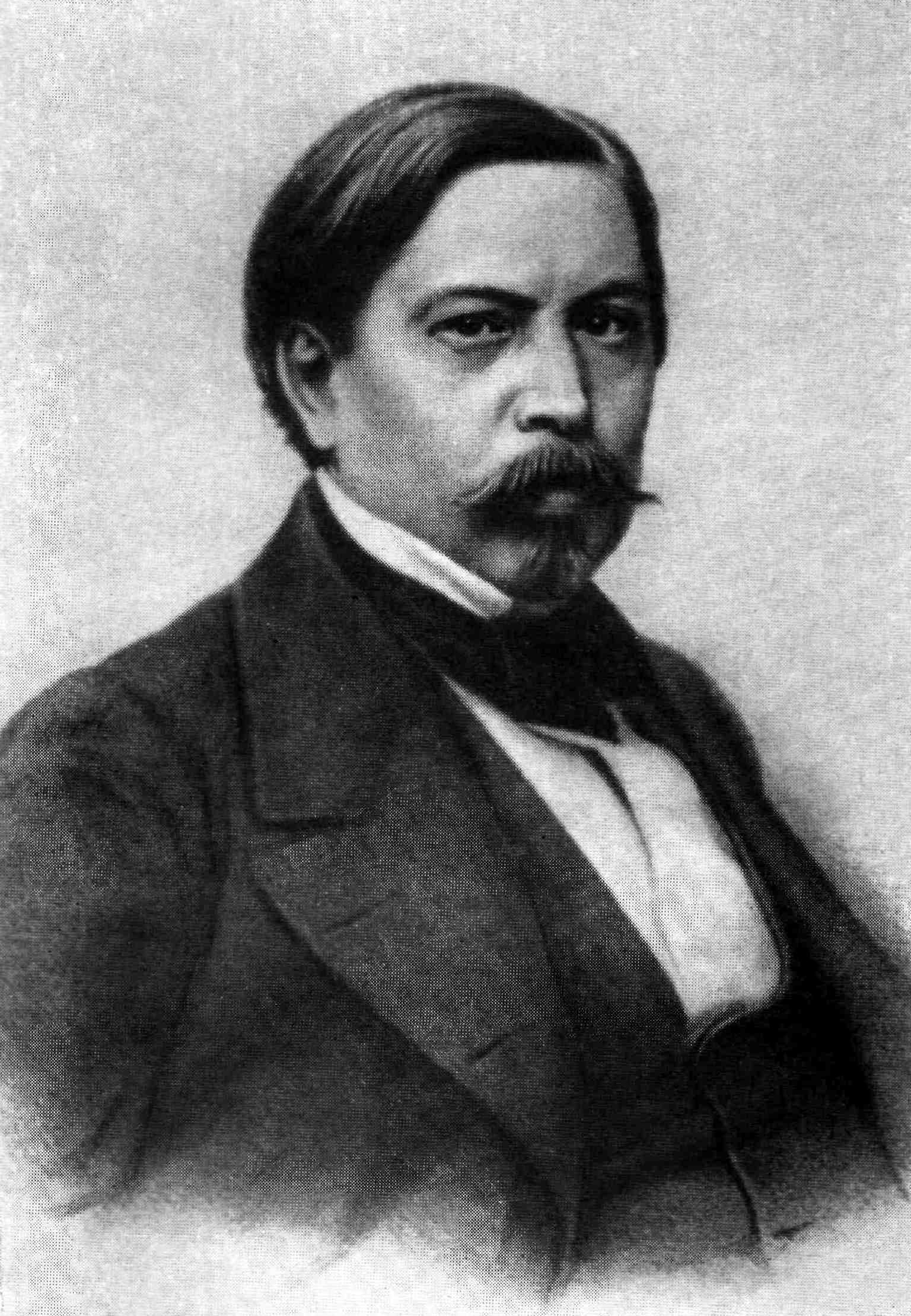 Pavel Vasiljevich Annenkov (1812 or 1813-1887), Russian critic and biographer of Pushkin, father founder of Pushkin studies